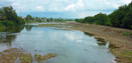 Bensura river in Beed city of Maharashtra.